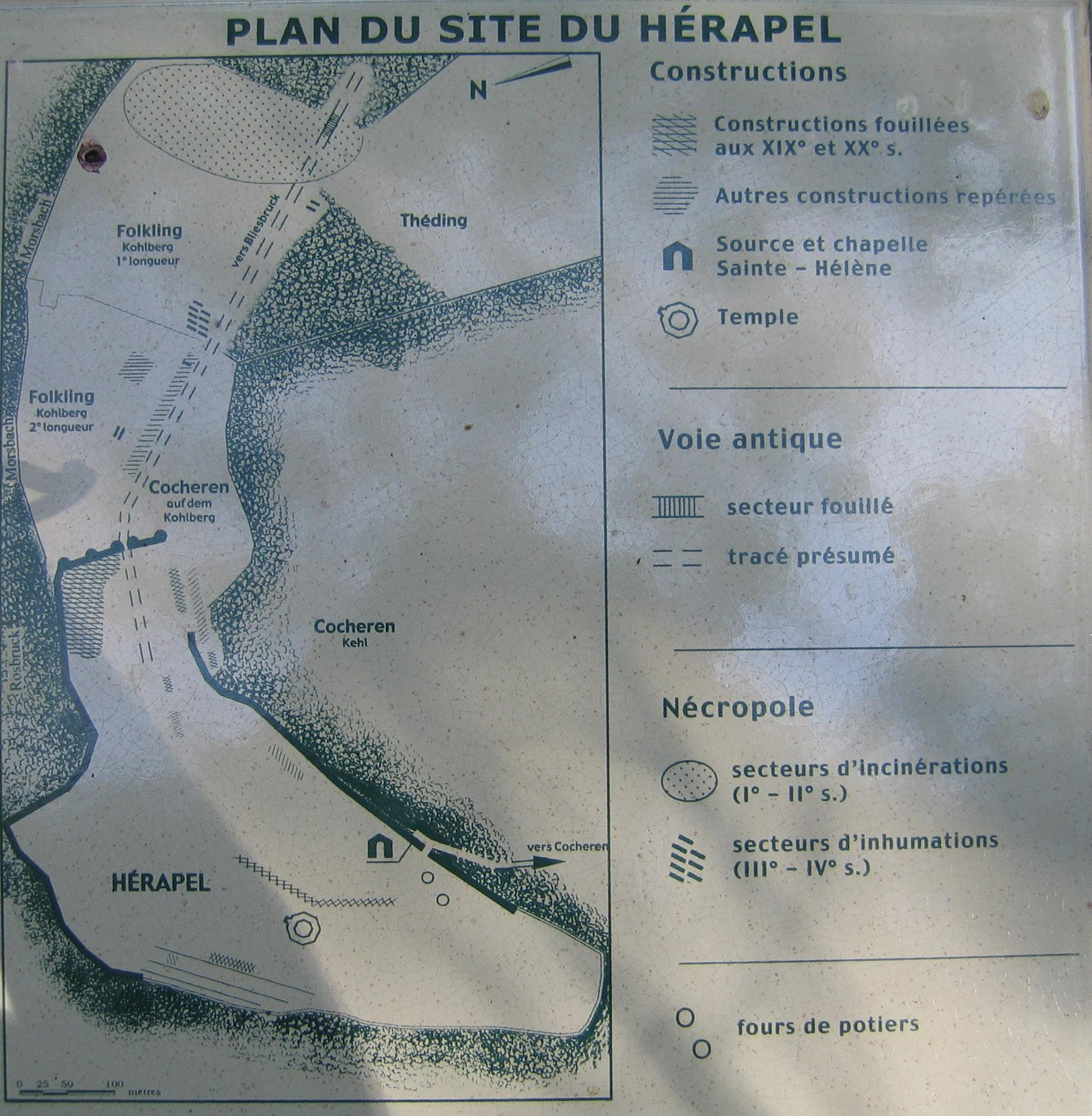 Herapel (Cocheren) Plan (Photo of the Table)